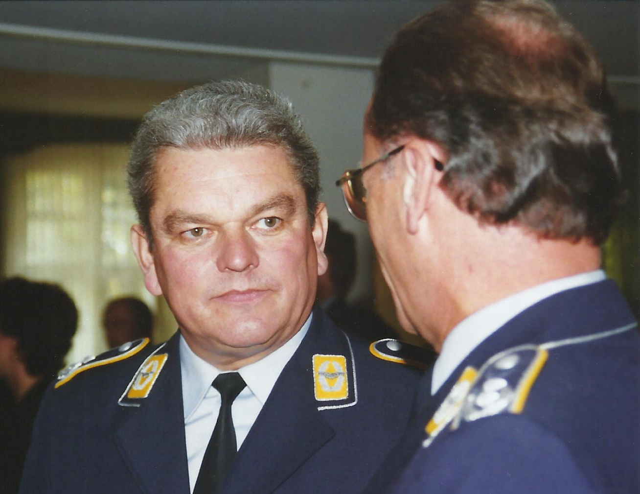 Oberstleutnant Peter Bräger